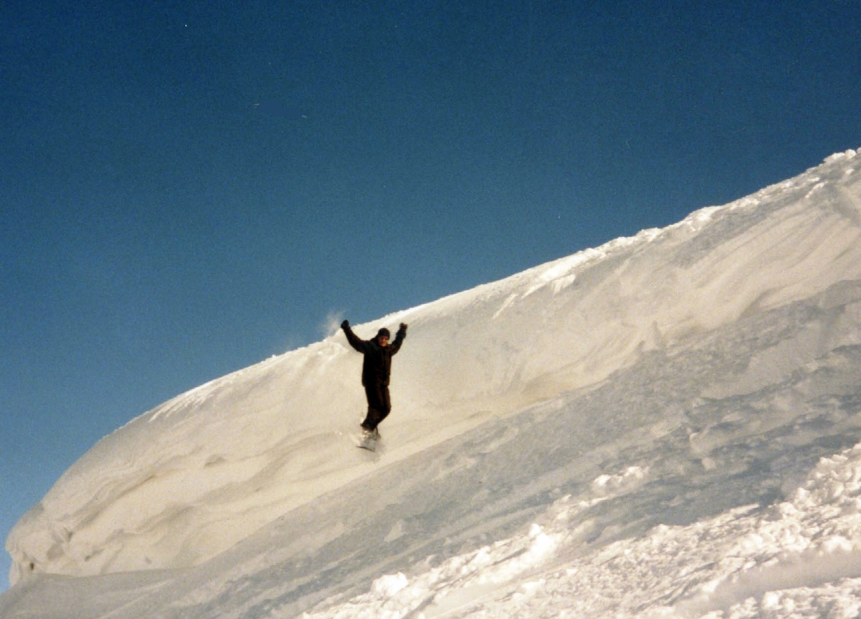 Snowboarder doing six meter jump from cornice into deep powder, Diavolezza ski area, Switzerland